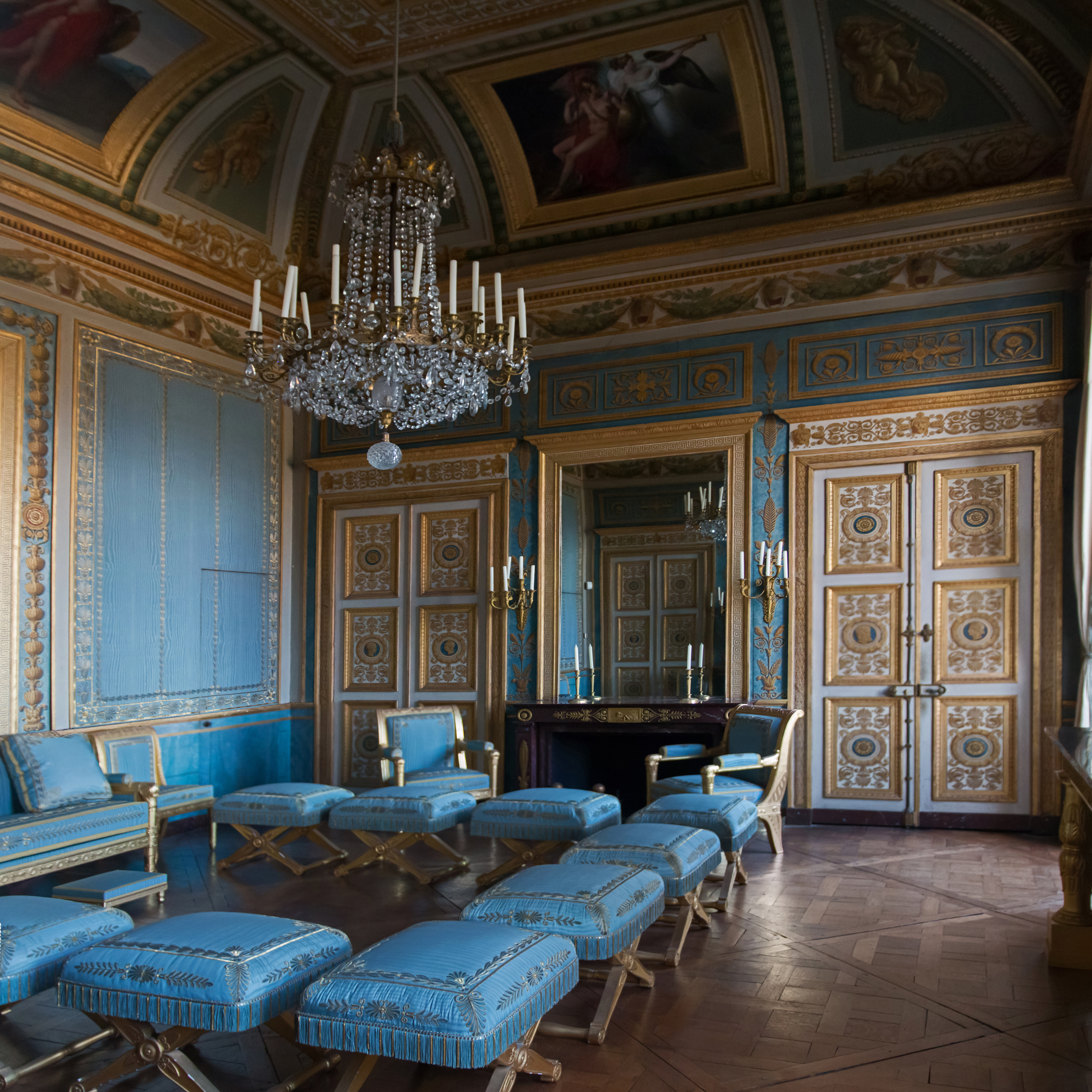 The Blue salon, salon for presentations of the Empress Josephine, was a converted for a time in study room for the Prince of Rome.